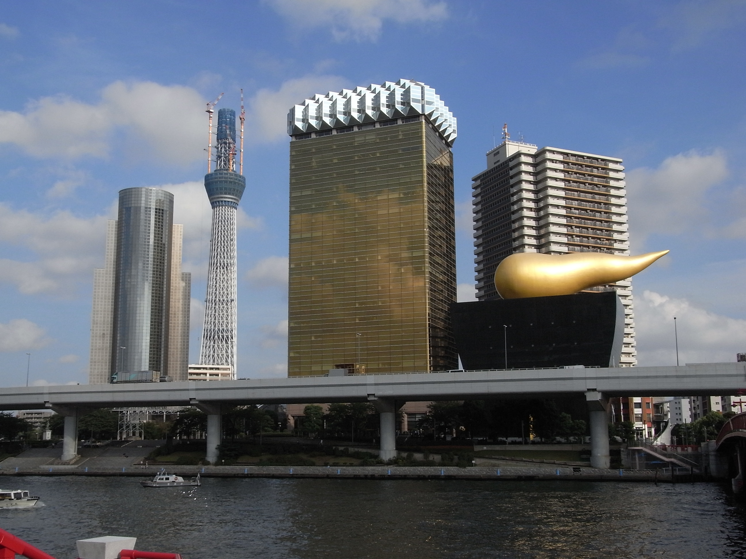 This is a photo of the Asahi Beer building